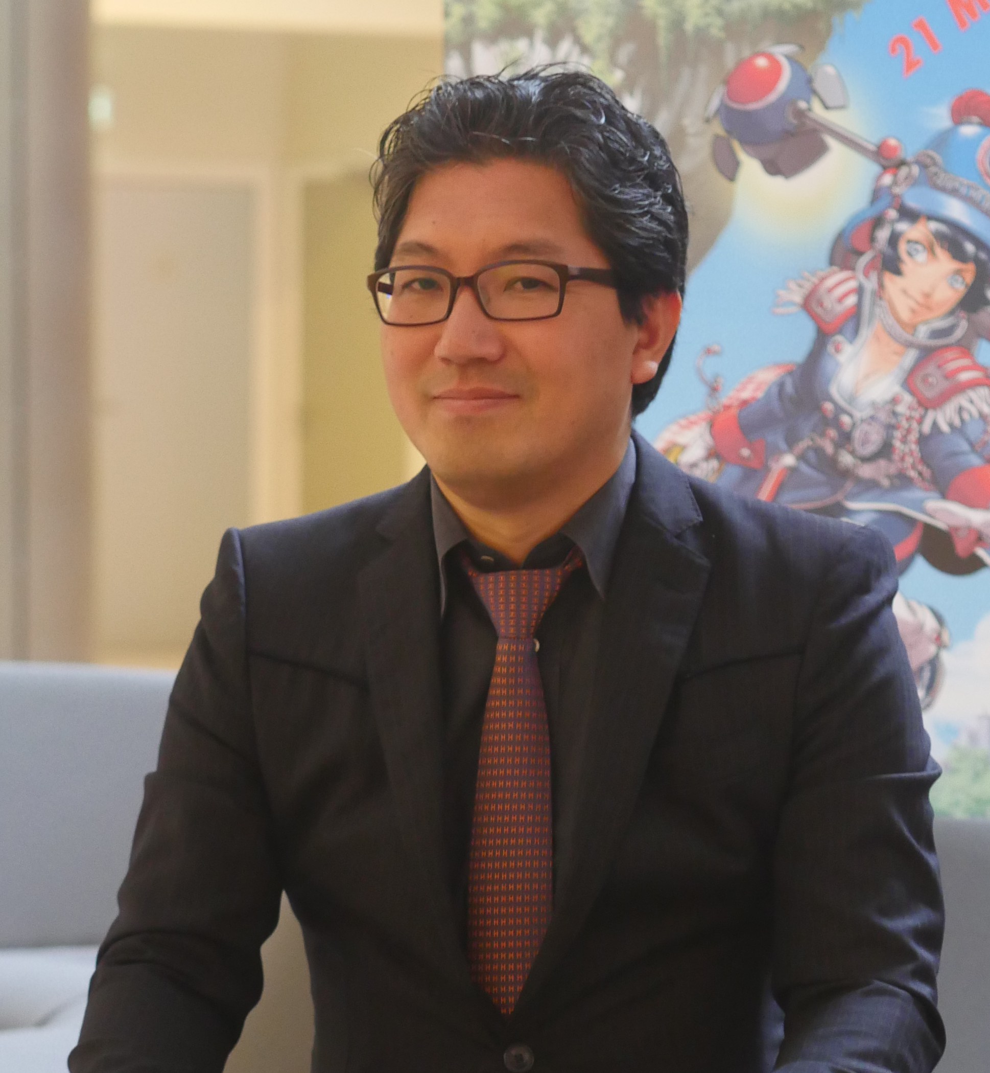 photograph taken at the 2015 edition of the "Monaco Anime Game International Conferences" (MAGIC) organized by Shibuya International in Monaco.